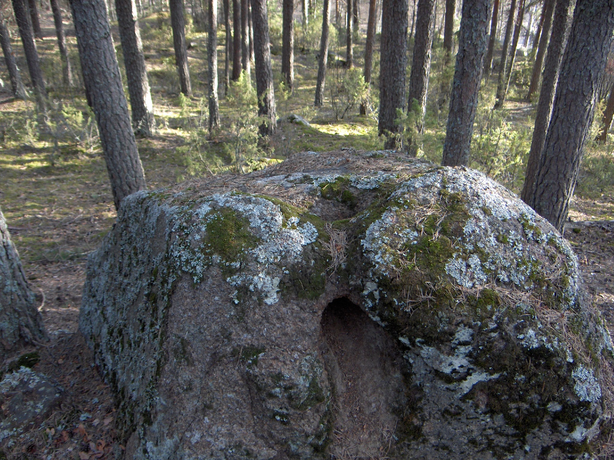 Hole through a stone at Pukinvuori hill fort at Jämsä, Finland